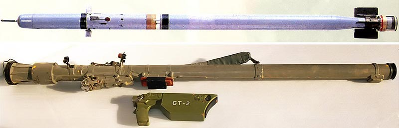 An image of a Russian SA-18 Grouse missil. From a PDF document on a US government website